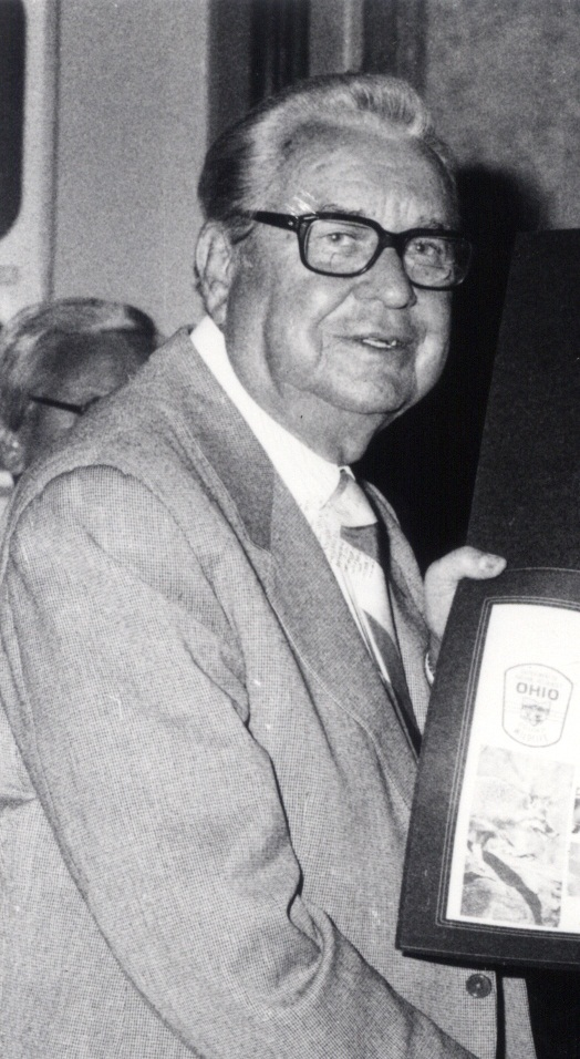 Jim Rhodes cropped from an October 15, 1981 photo in Bettsville, Ohio.